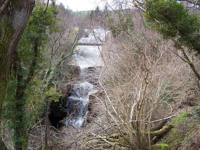 Bishops Glen Dunoon Reservoir spillway